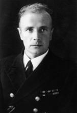 Toimi Ovaskainen, Knight of the Mannerheim Cross #106